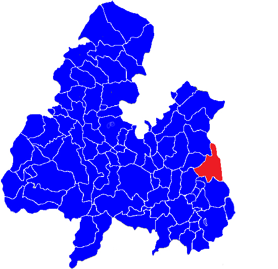 Templetuohy civil parish highlighted in a map of civil parishes in Tipperary (North Riding)